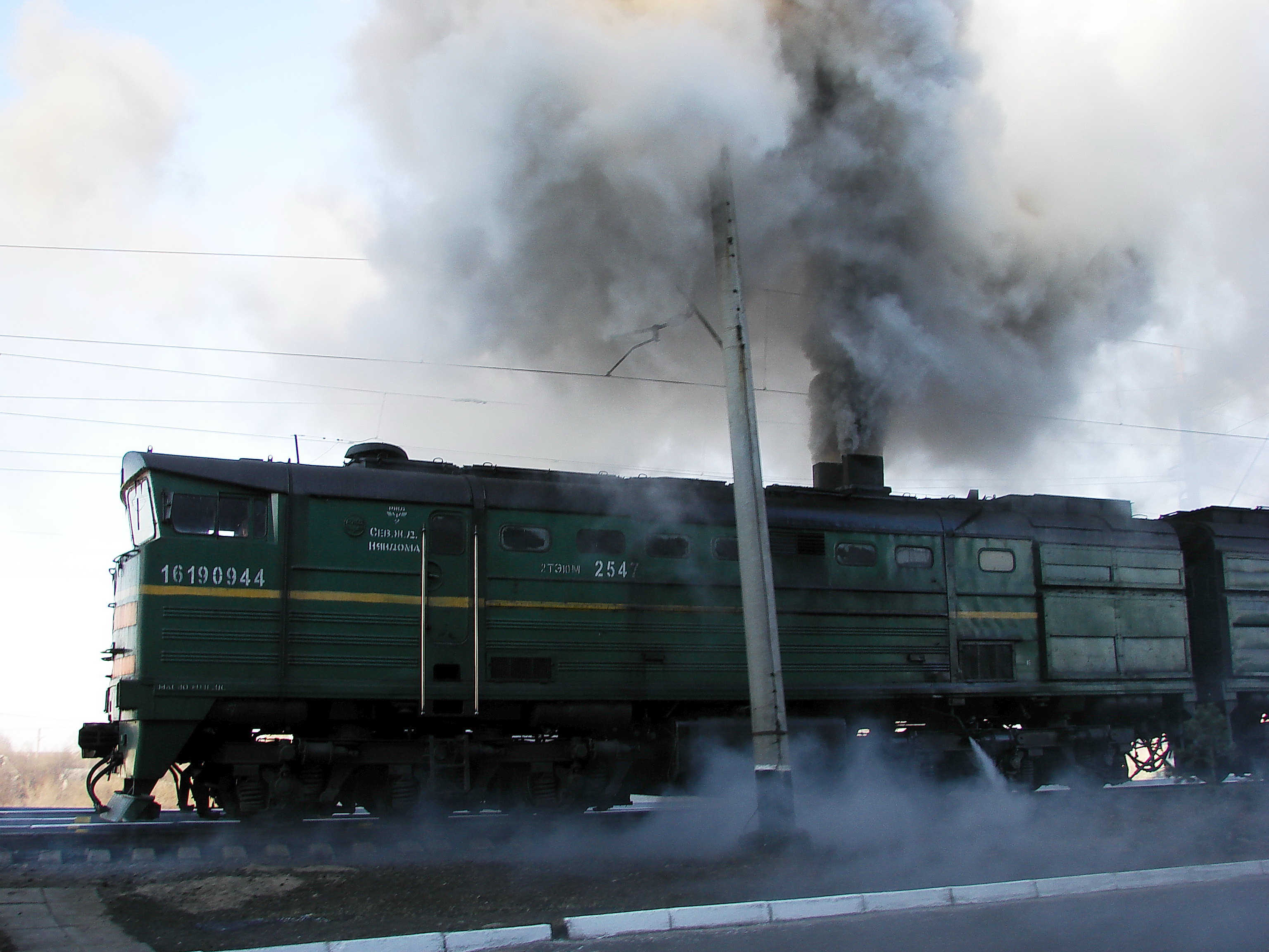 Air pollution by a Type 2TE10M-2547 diesel locomotive in Russia.